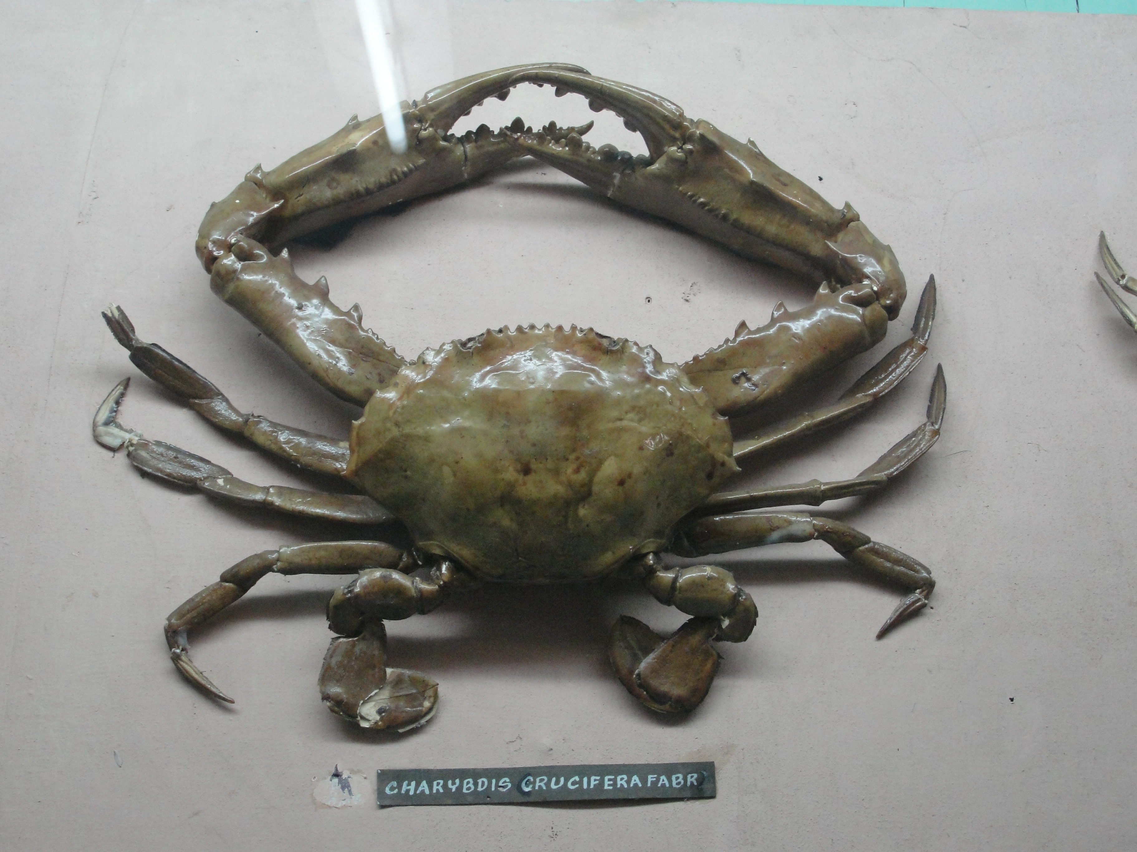 A taxidermy of Charybdis sp. Location: Salem District Museum, Tamil Nadu, India.